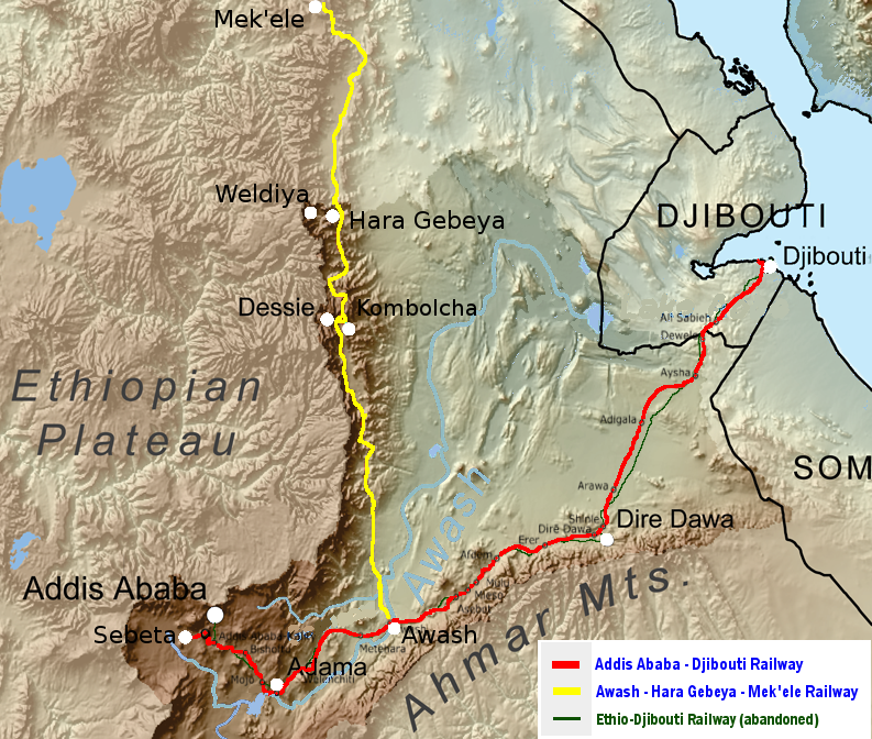 Map of the railways of Ethiopia in different colors. All railways are running for most of their course along one of the two escarpments of the Ethiopian Highlands and within the basins of the Afar Triangle and of the Awash River drainage basin (the latter indicated through darker colors / shades). Addis Ababa–Djibouti Railway (operational as of 2018) Awash–Hara Gebeya–Mek'ele Railways (under construction as of 2018) Ethio–Djibouti Railway (partially abandoned)